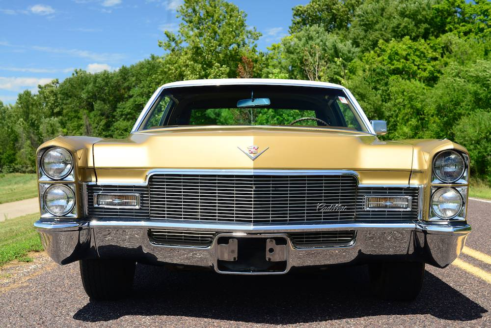 This is a picture of a vehicle (name of it is on the file name).